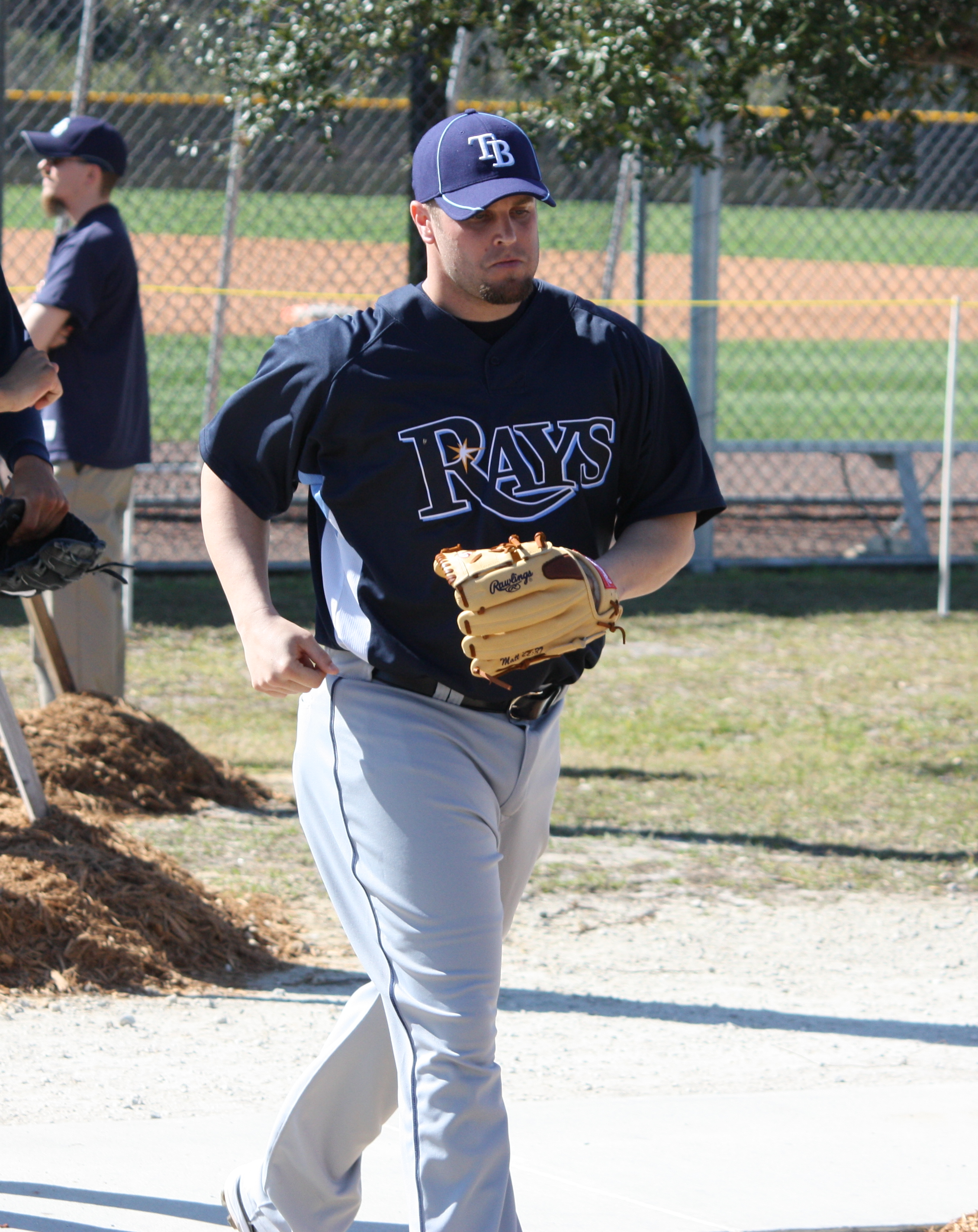 Jeff Bennett of the Tampa Bay Rays during spring training workouts at Charlotte Sports Park in Port Charlotte on February 21, 2010.